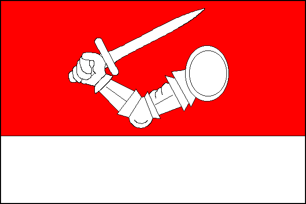 Municipal flag of Loket town, Sokolov District, Czech Republic.